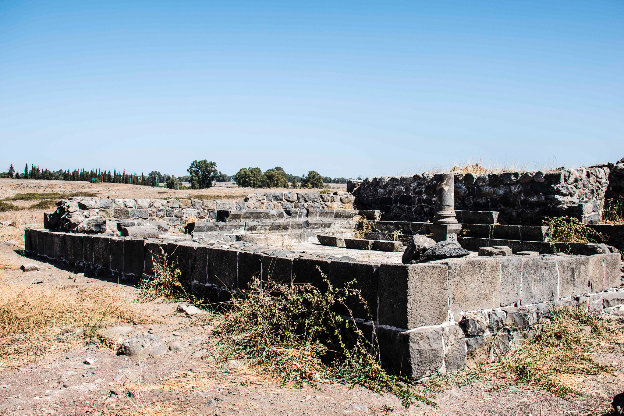 Nashout on the Golan Heights